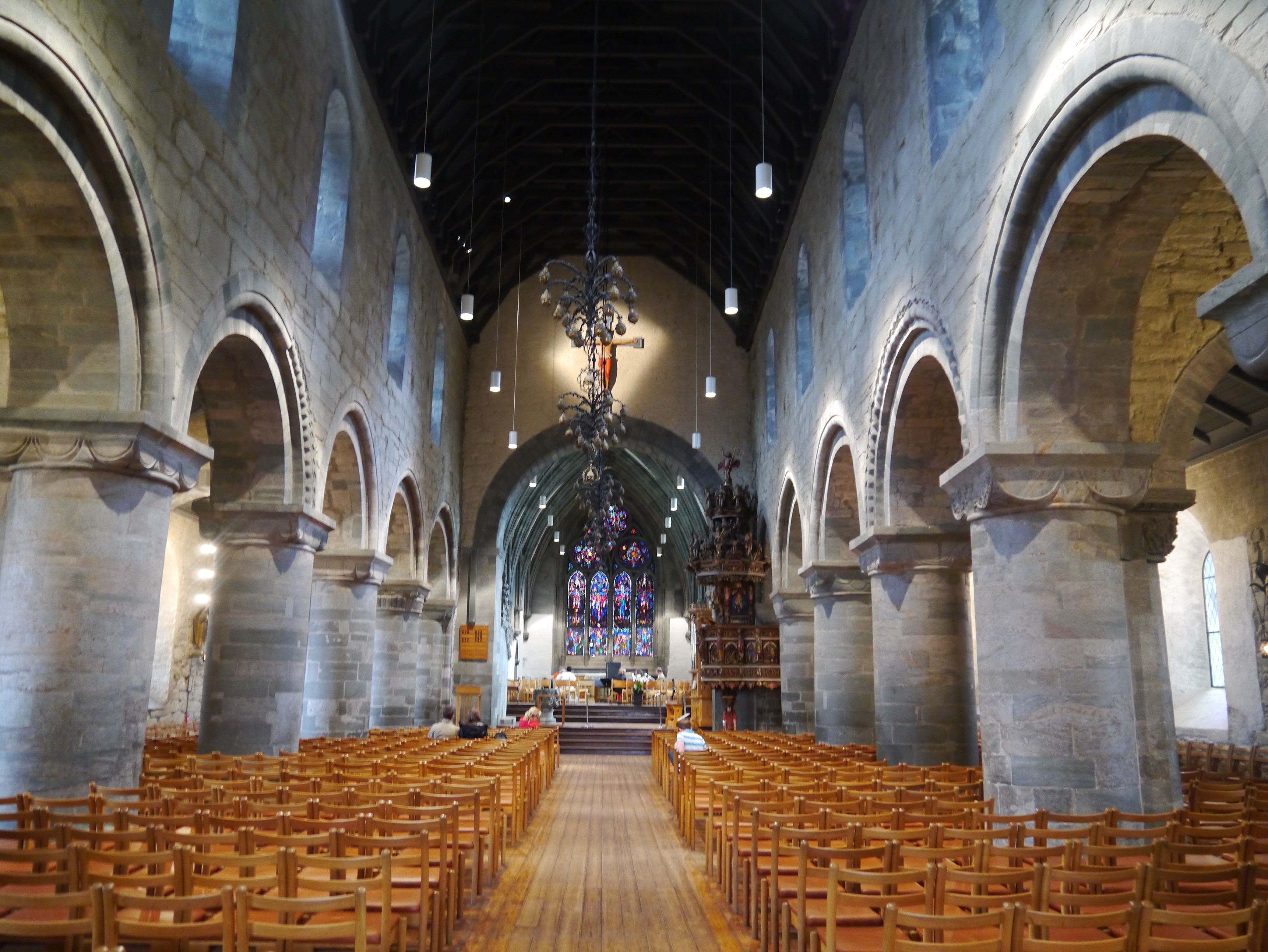 Nave of the Cathedral St. Svithun, Stavanger, Rogaland County, Southwestern Norway